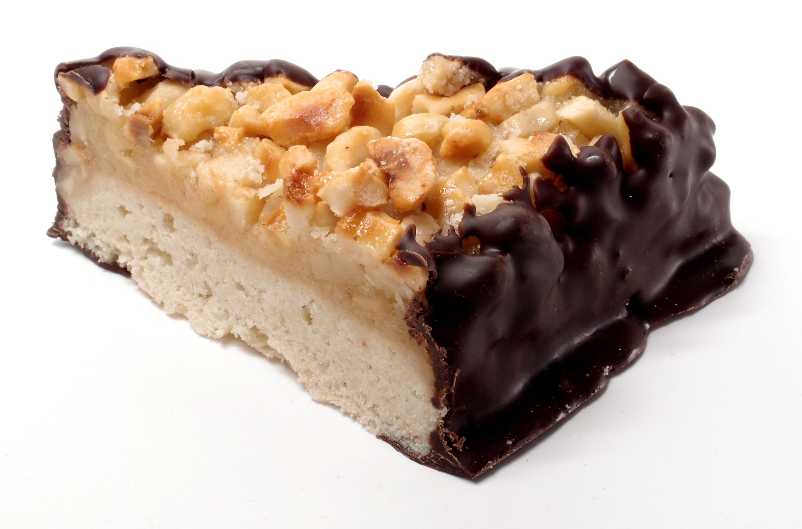 German “Nussecke” confection, cut open. Visible are the shortbread base, a layer of macaroon filling, and a caramelized hazelnut topping. The whole slice is lined with couverture chocolate.